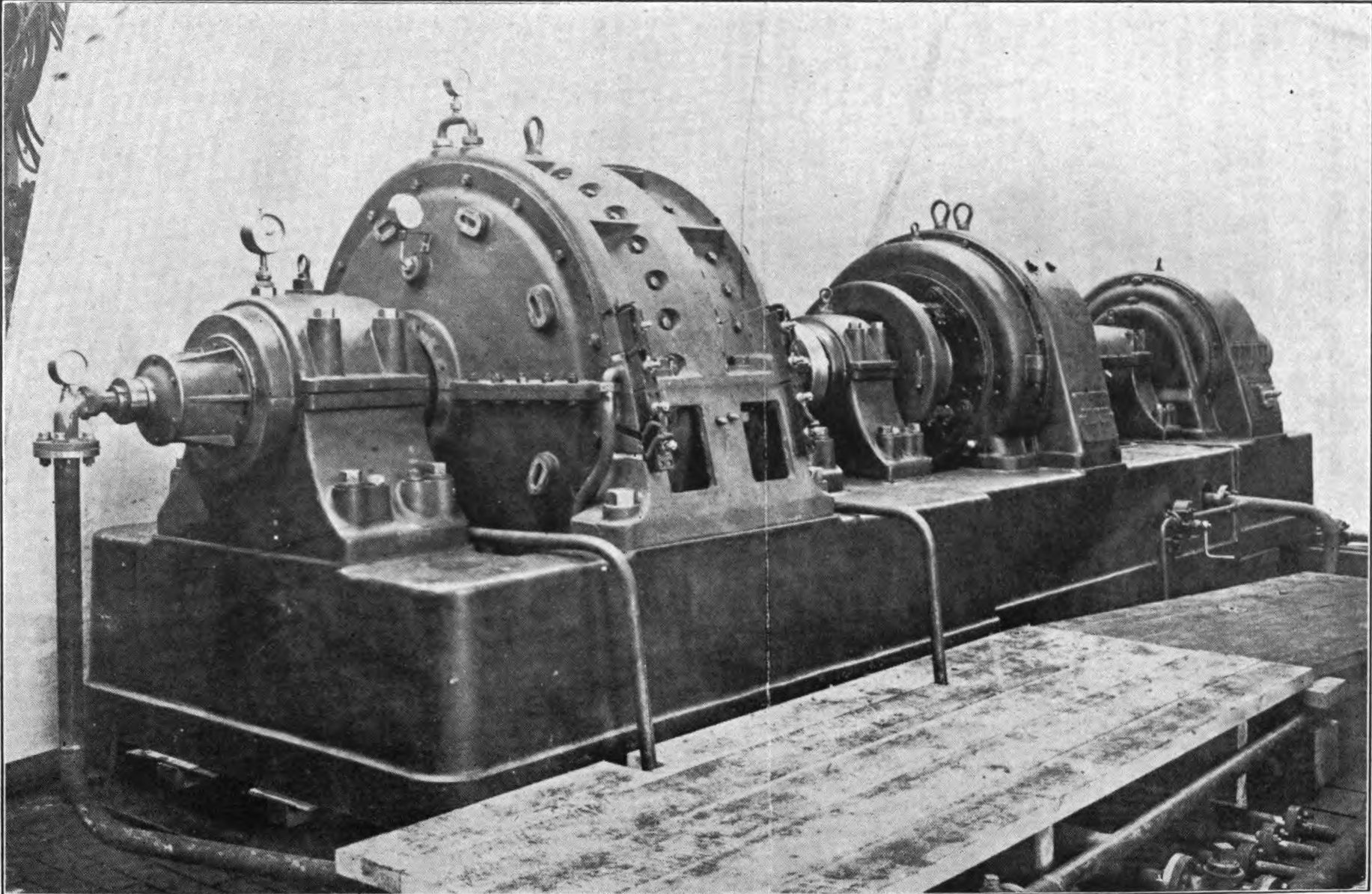 A Bethenod-Latour alternator, a specialized rotating machine that generates radio frequency current, invented during World War 1 by Marius Latour and Joseph Bethenod, which and was used as a high power longwave radio transmitter. It consists of 3 alternators in series, turned by a powerful electric motor. This version produced 225 kW at a frequency of 20 kHz. In order to produce alternating current with high enough frequency for a radio transmitter the alternator had to have many poles and rotate very fast. The advantage of the Bethenod-Latour design was that by combining 3 alternators in series it could produce power at a frequency of 3 times that of each individual alternator, allowing the alternators to rotate slower. Alternator transmitters like this were used from about 1910 to 1930 in superpower transoceanic wireless telegraphy radio stations that exchanged telegraph messages in Morse code with similar stations all over the world.